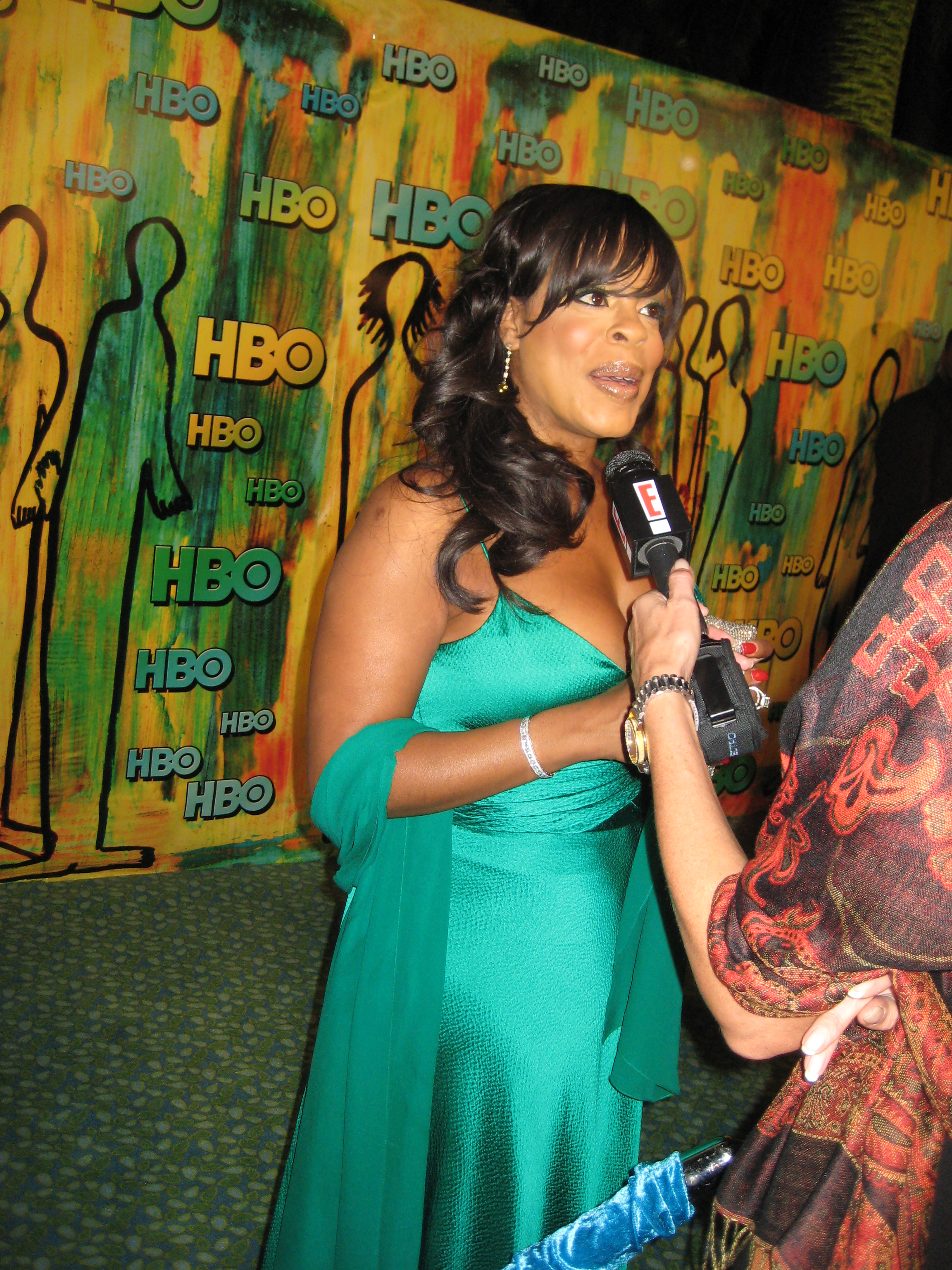 HBO Post-Emmys Party, Pacific Design Center, Sept. 21, 2008